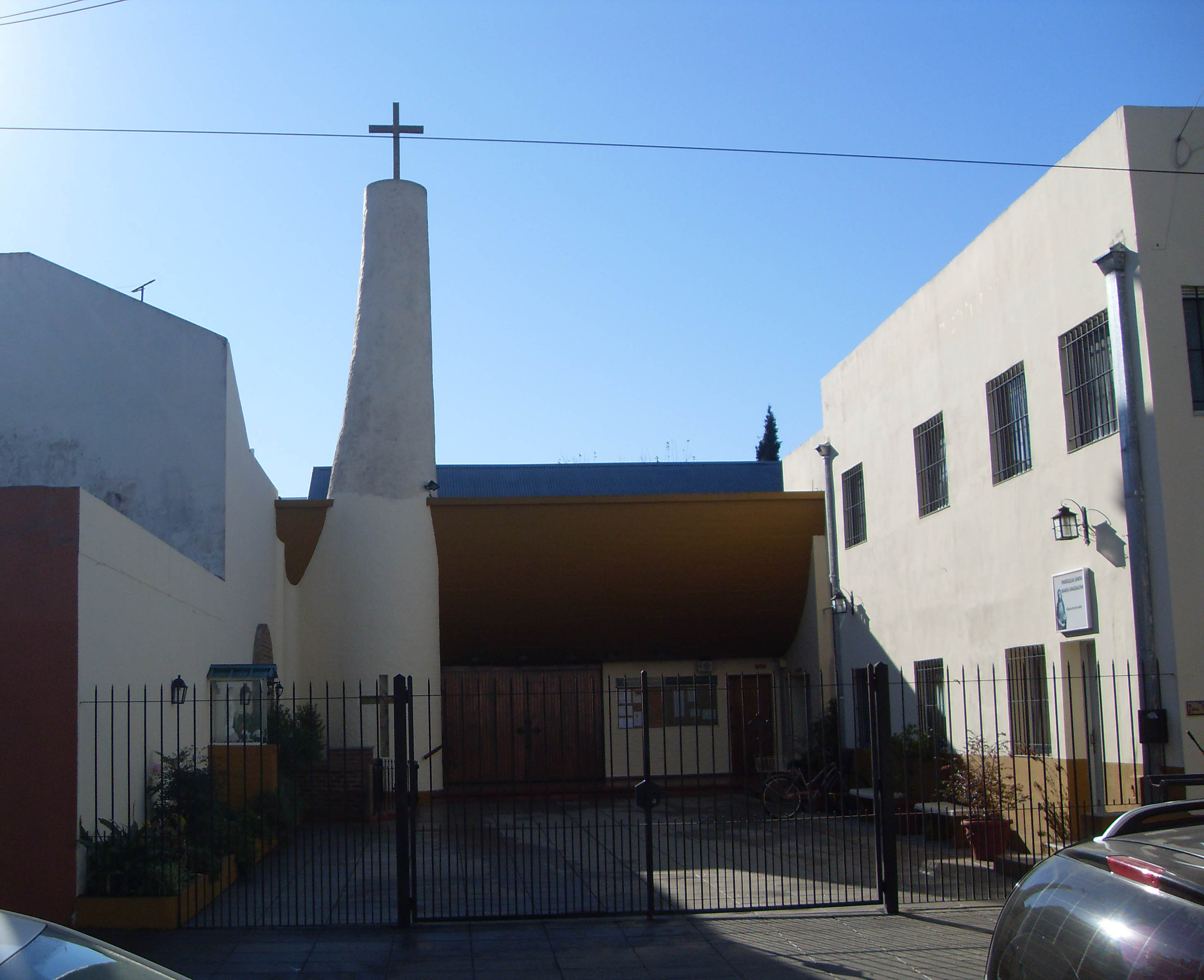 St. Mary Magdalene Church of Florida Oeste, in Buenos Aires. The church is located on Perú street, two blocks from the railway station.